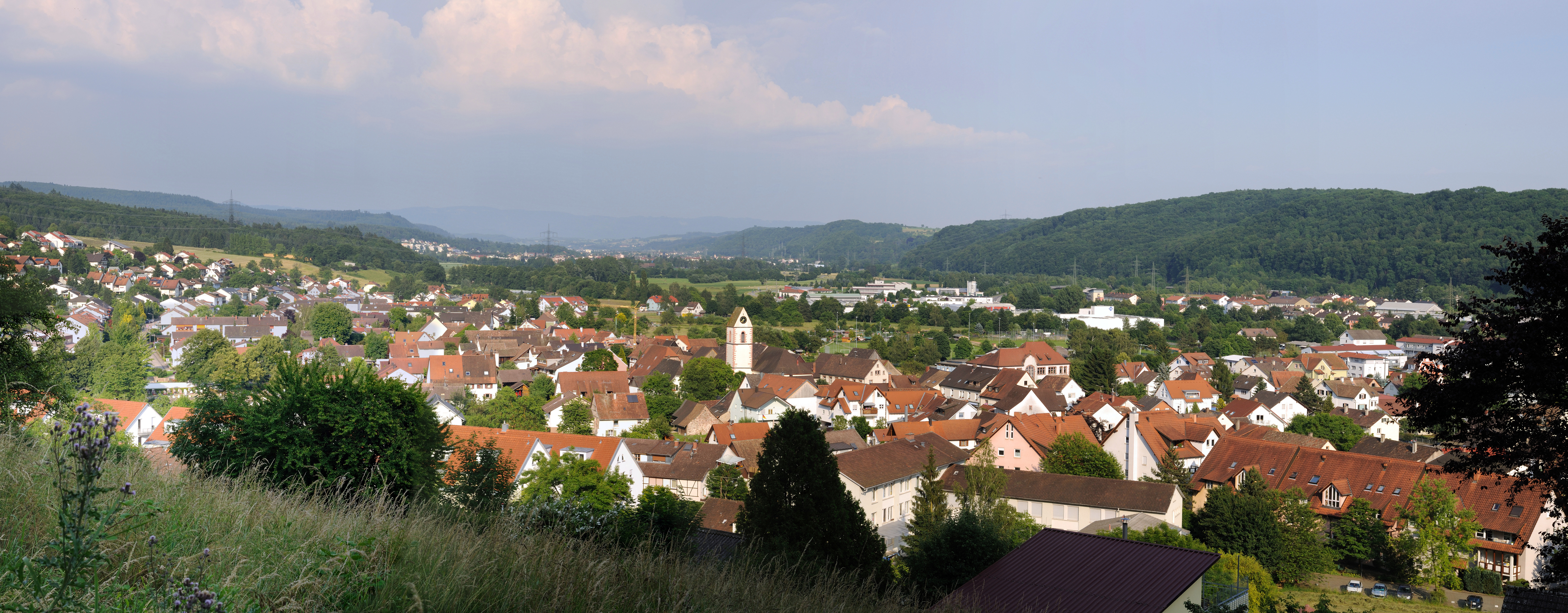 Panorama of Hauingen as seen from Lingert forest (small version)